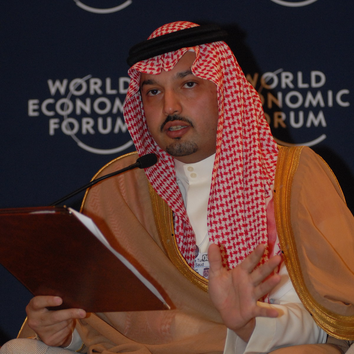 SHARM EL SHEIKH/EGYPT, 19MAY08 - H.R.H. Prince Turki Bin Talal Al Saud, Chairman of the Board of Trustees, The Mentor Arabia Foundation, Saudi Arabia, captured during the session "Scenarios Series: How Much Water Do You Eat?" at the World Economic Forum on the Middle East 2008 held in Sharm El Sheikh, Egypt. Copyright World Economic Forum